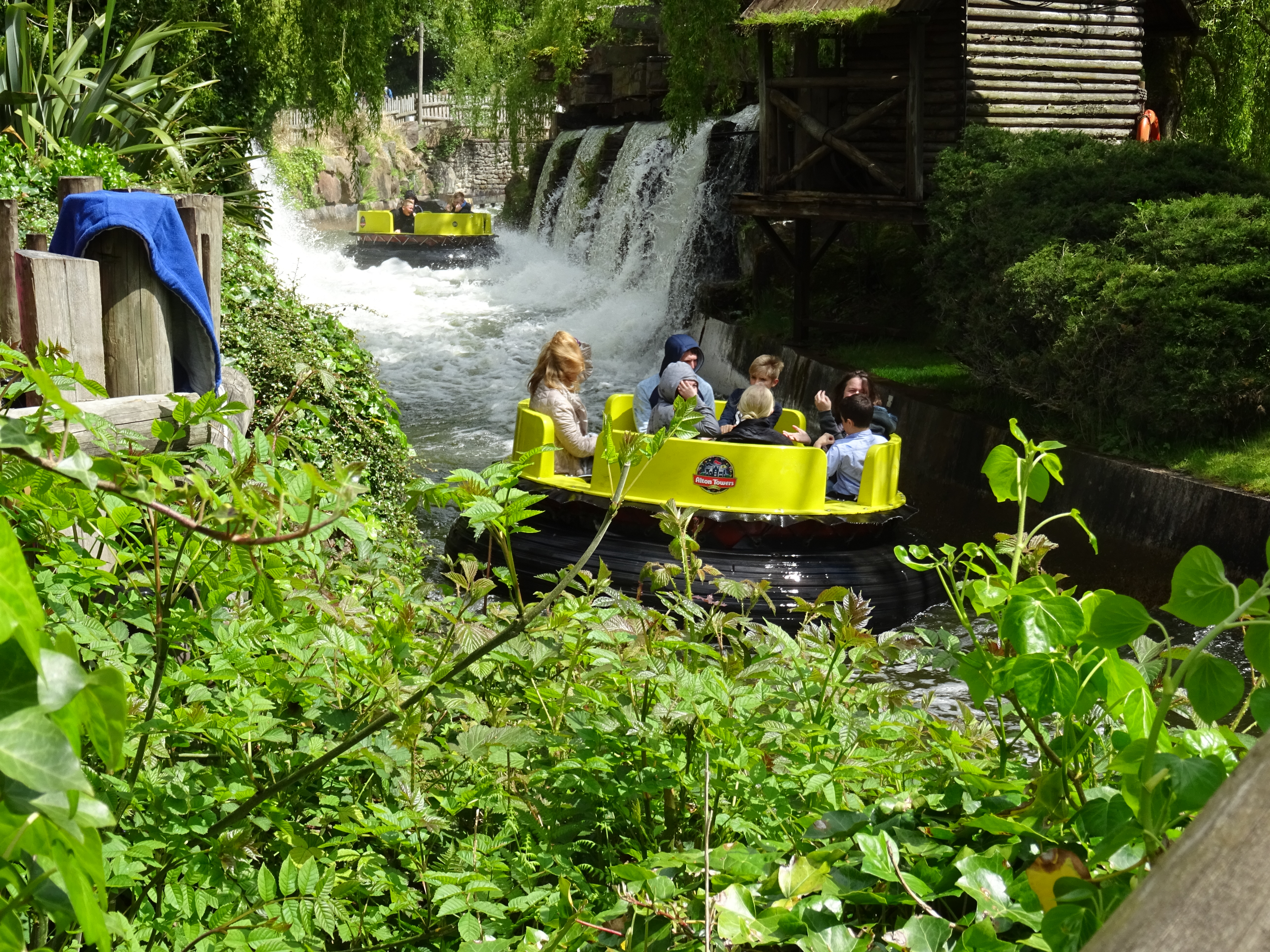 Congo River Rapids 2015.